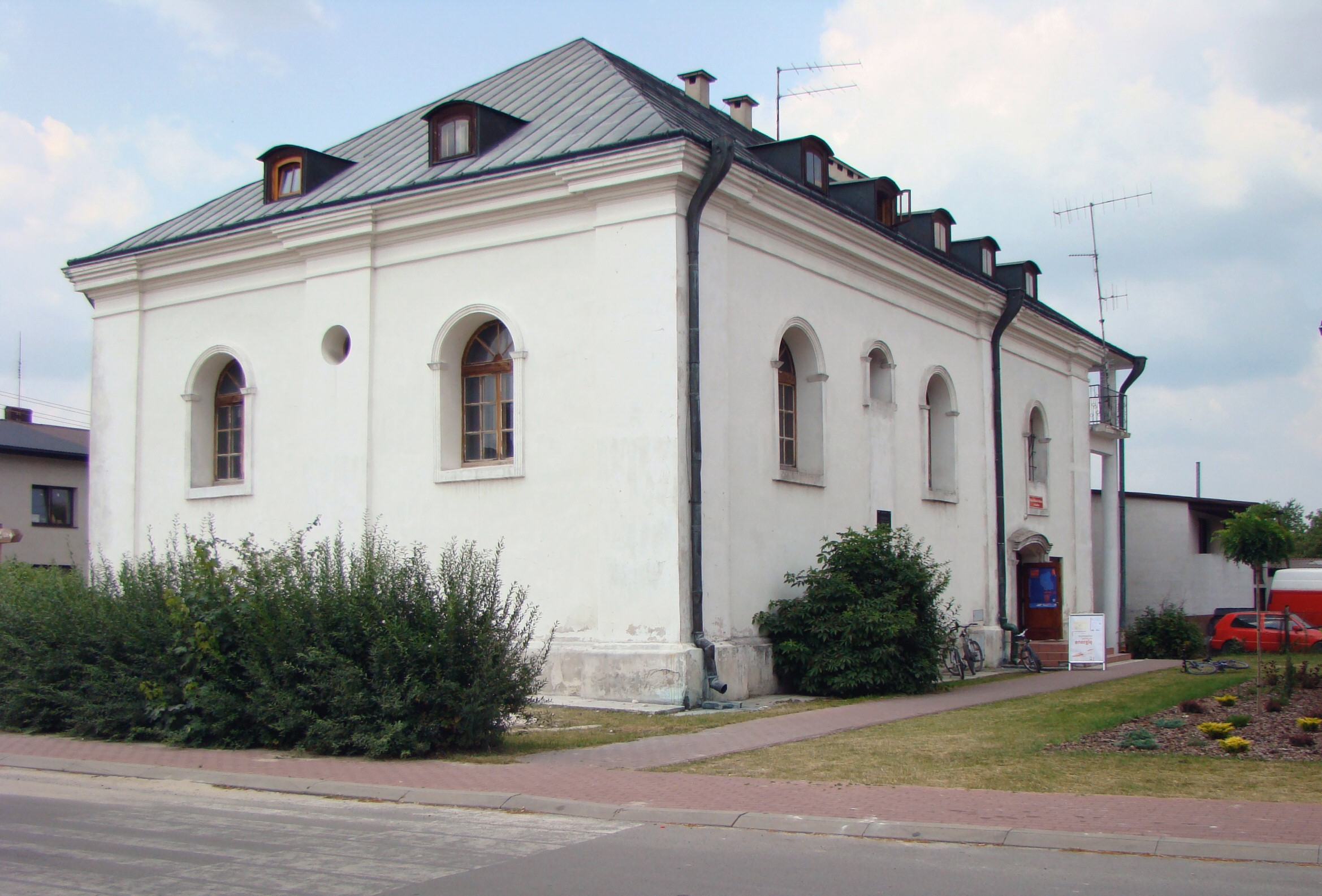 A former synagogue in Józefów Biłgorajski.